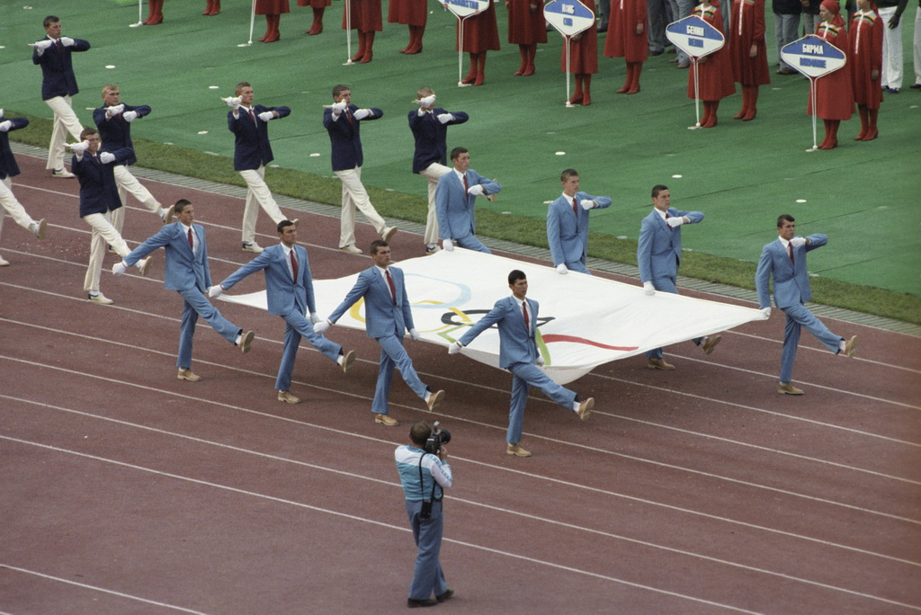 “Carrying the Olympic flag”. Carrying out the Olympic flag at the opening ceremony of the XXII Olympic Summer Games. Central Lenin stadium, July 19, 1980